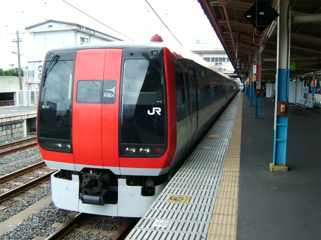 JR East 253 series EMU set Ne10 at Narita Station on a Narita Express service